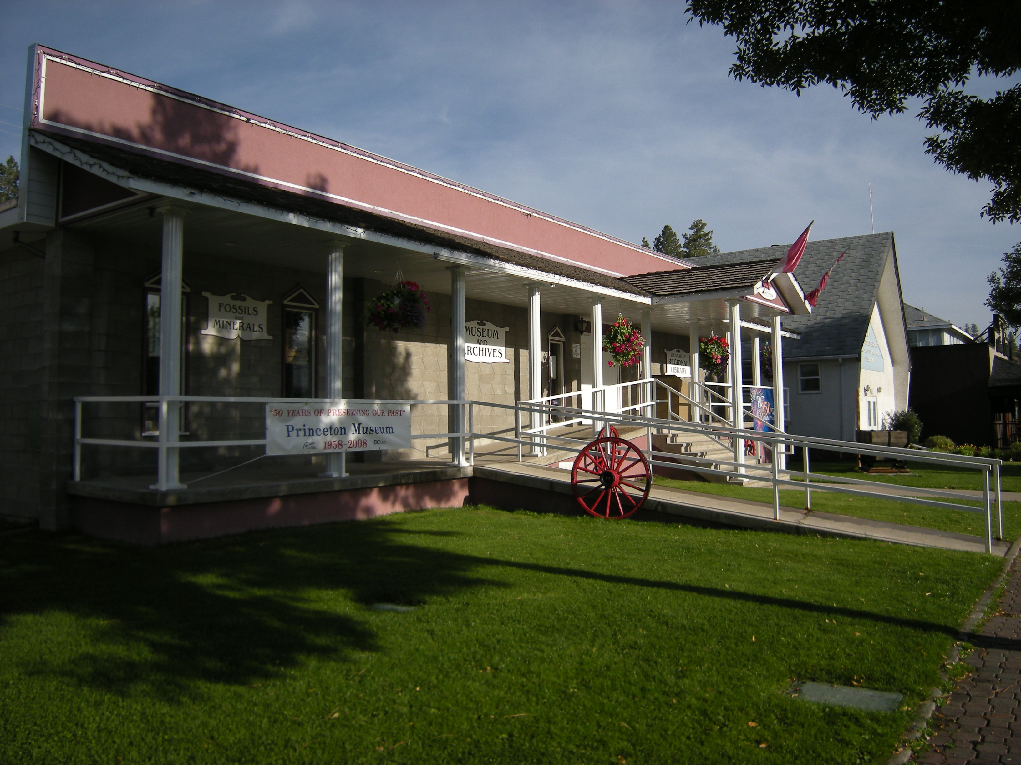 Princeton Museum and Okanagan Regional Library, Vermilion Avenue, Princeton, British Columbia.